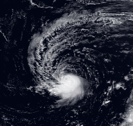 Image of Hurricane Lili of the 1990 Atlantic hurricane season on 11 October 1990